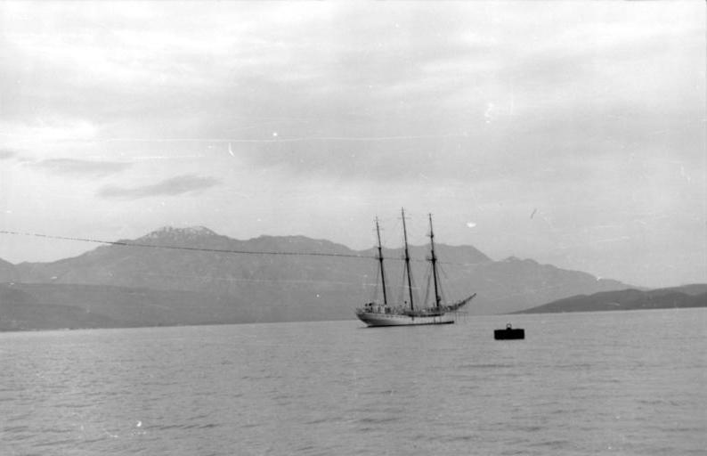 Yugoslavian schooner Jadran